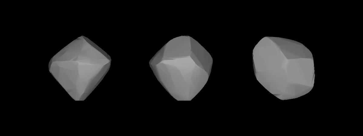 A three-dimensional model of 89 Julia that was computed using light curve inversion techniques.